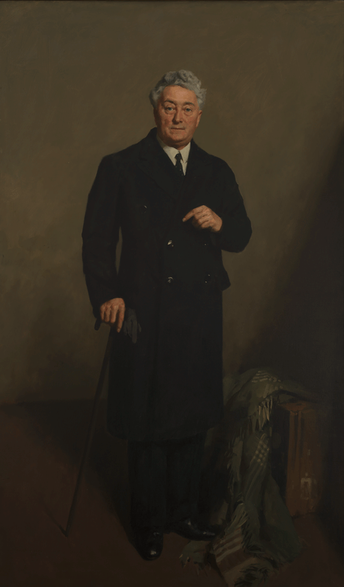 The Rt Hon. Joseph Aloysius Lyons CH, Prime Minister of Australia (1932–39)